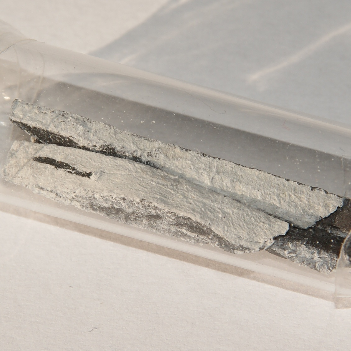 During more than one year, white powder slowly formed. I suppose this is lithium oxide, due to a small residue of oxygen in the argon atmosphere.